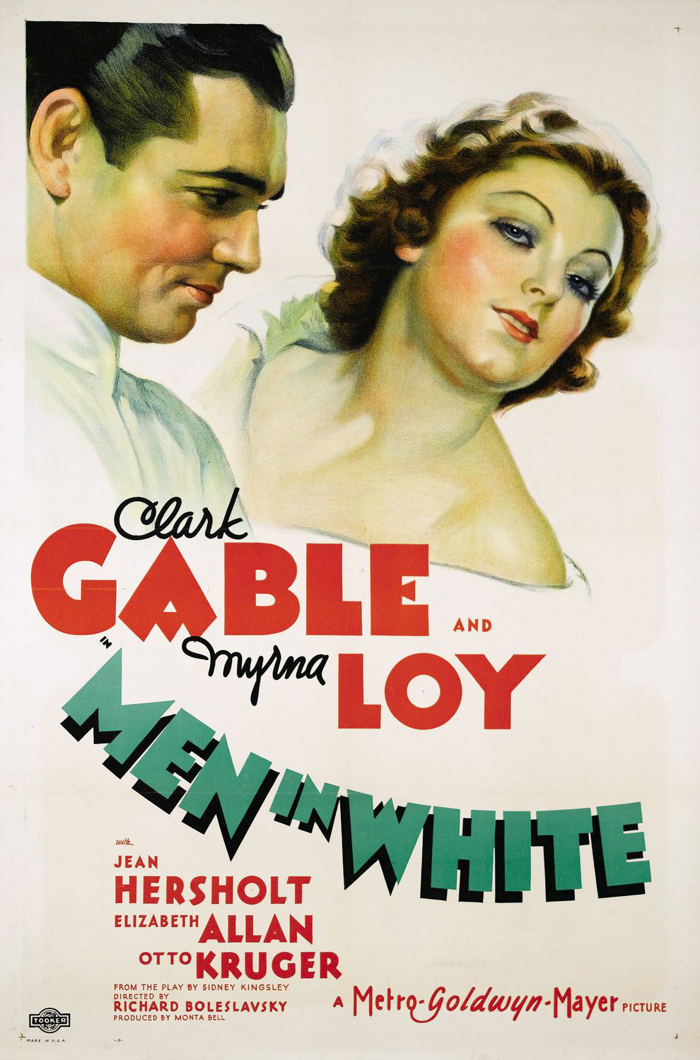 Poster for the 1934 film Men in White. The item has no copyright markings on it as can be seen in the links above. At lower left is a logo for the Tooker Litho Company--they printed the poster--and Made in USA.